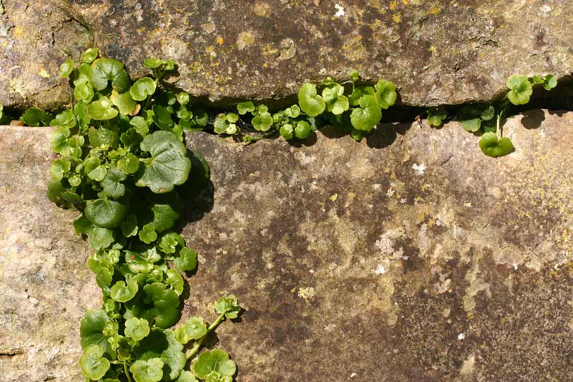 Plant Growing In Wall